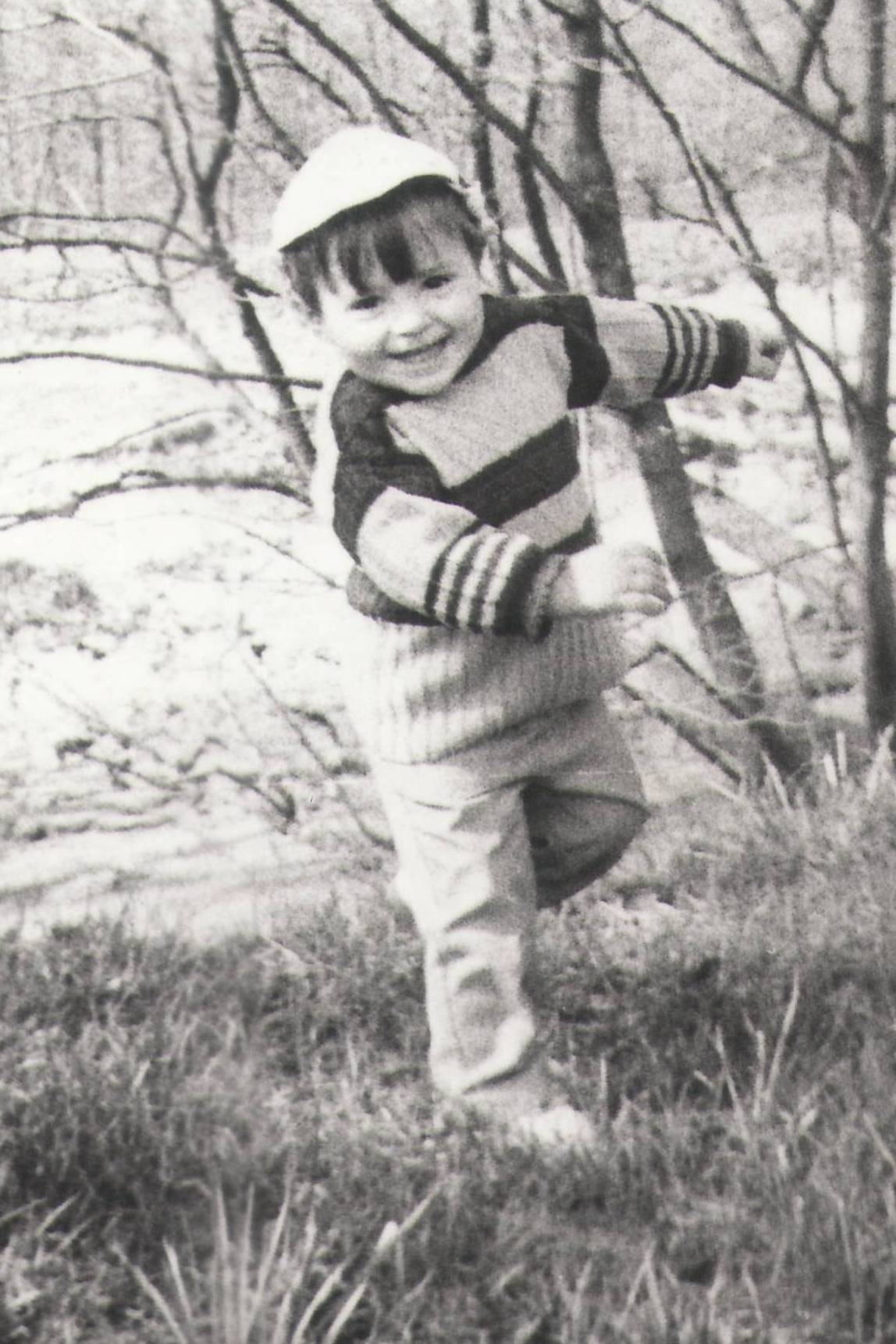 Mikola Bruy